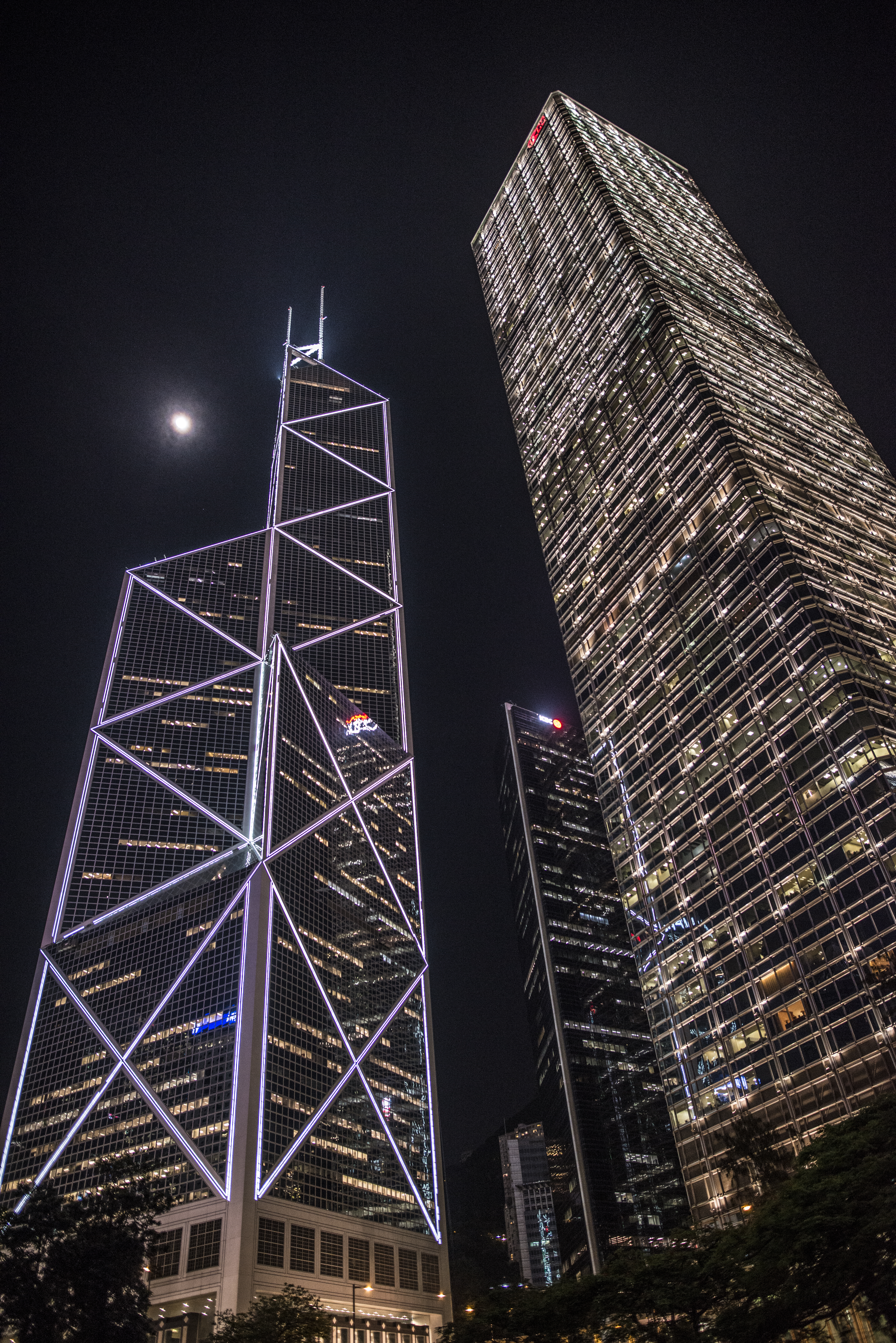 Bank of China Tower and Cheung Kong Center in Hong Kong by night.